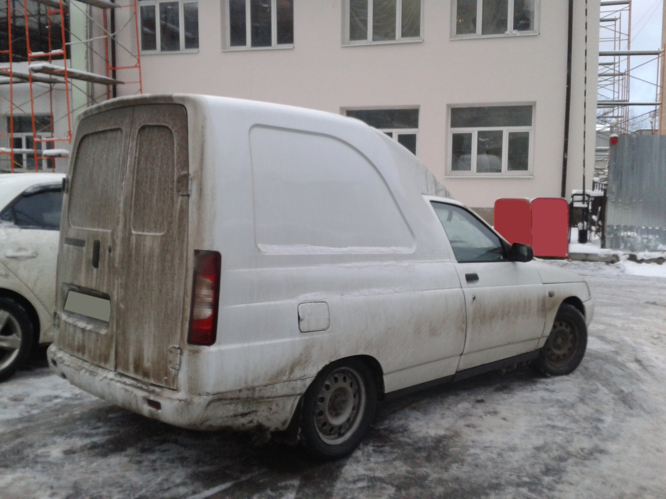 Bogdan-2310 in the west Russian winter climate 2012 realities. (Rear view).